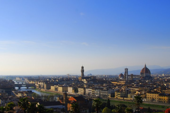 Florence landscape as seen from Piazzale Michelangelo